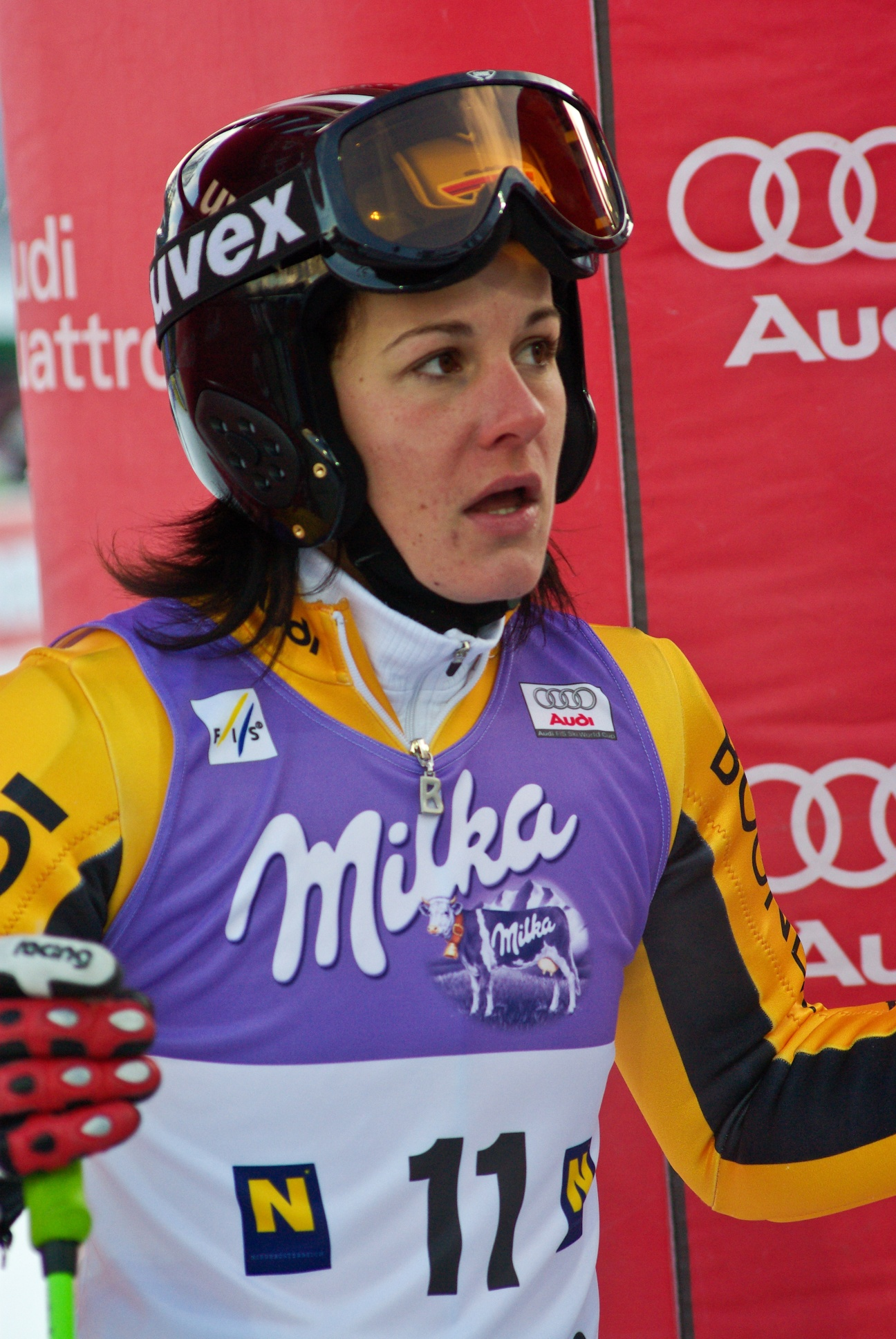 German alpine skier Kathrin Hölzl after the first run of the giant slalom in Semmering (Austria) on 28 December 2008.